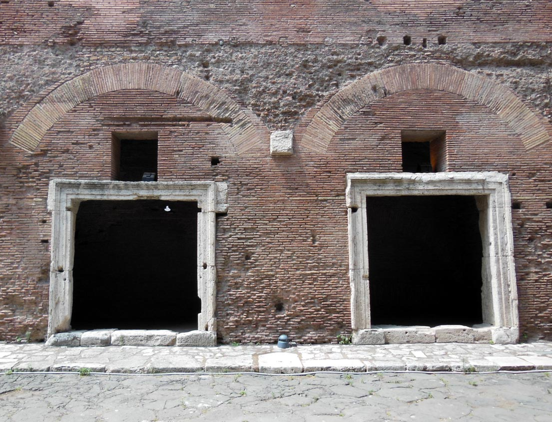 Rome, Trajan's Market, northern sector of the Via Biberatica, side of the building of the Piccolo Emiciciclo, tabernae (with original travertine jambs and threshold)